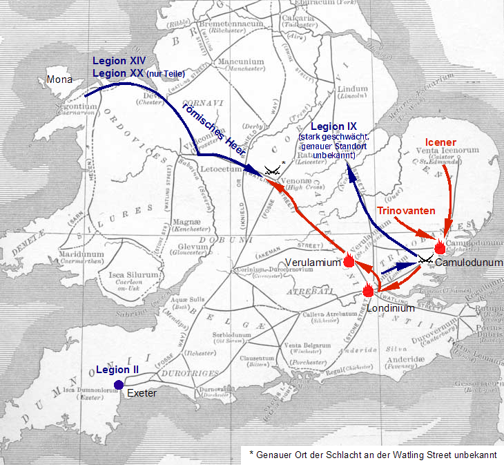 A somewhat inaccurate account of the Boudica Revolt (AD 60 or 61) against the Romans in Britain, set over an inaccurate map of Roman roads a century out of date.